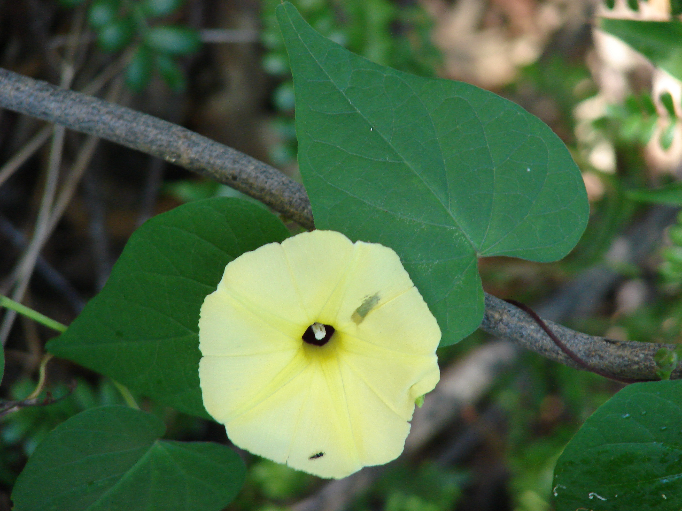 Ipomoea ochracea (flower and leaves). Location: Maui, Makawao